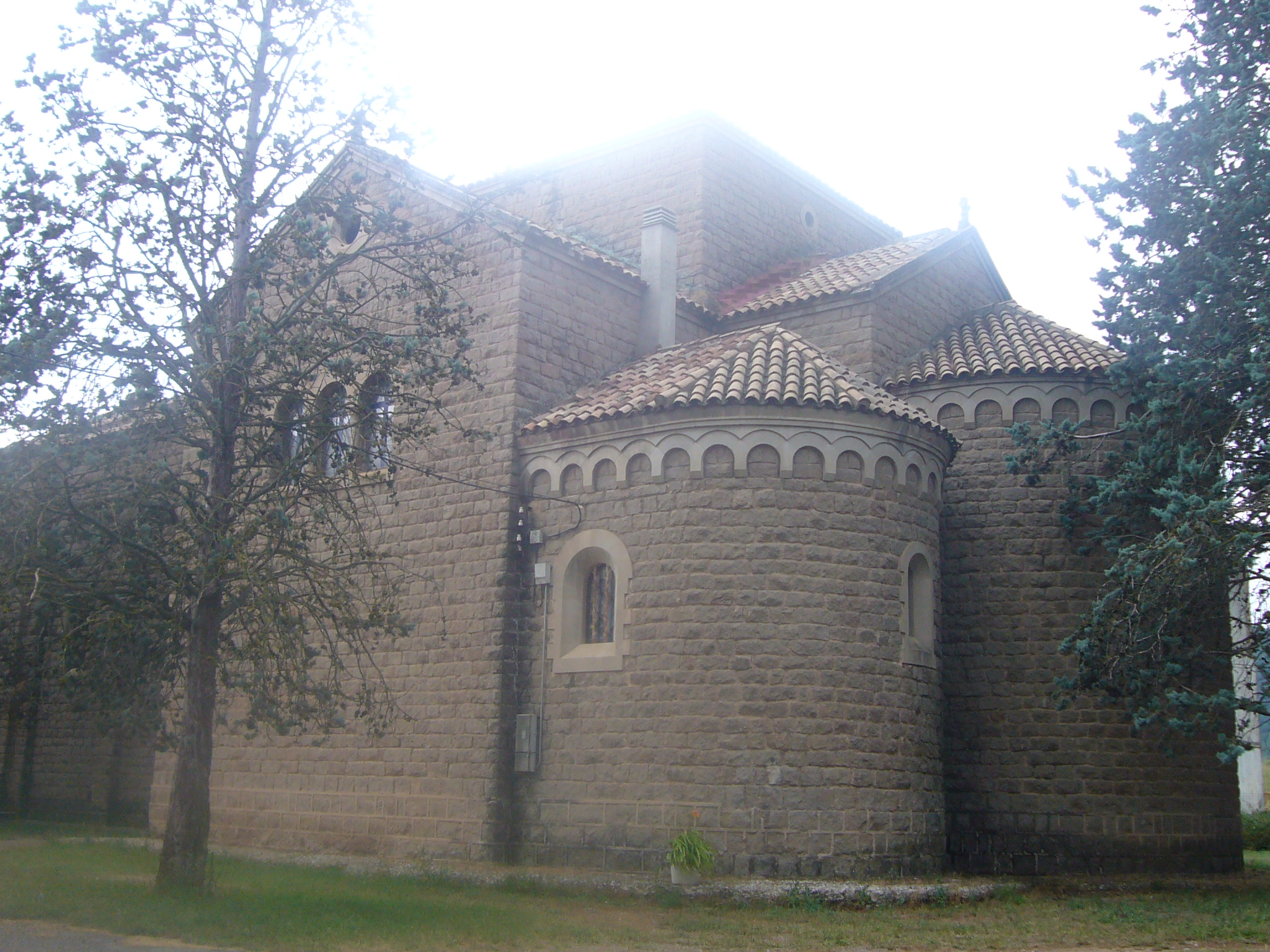 Church_colonia_vidal (rear view), Puig-reig, Catalonia